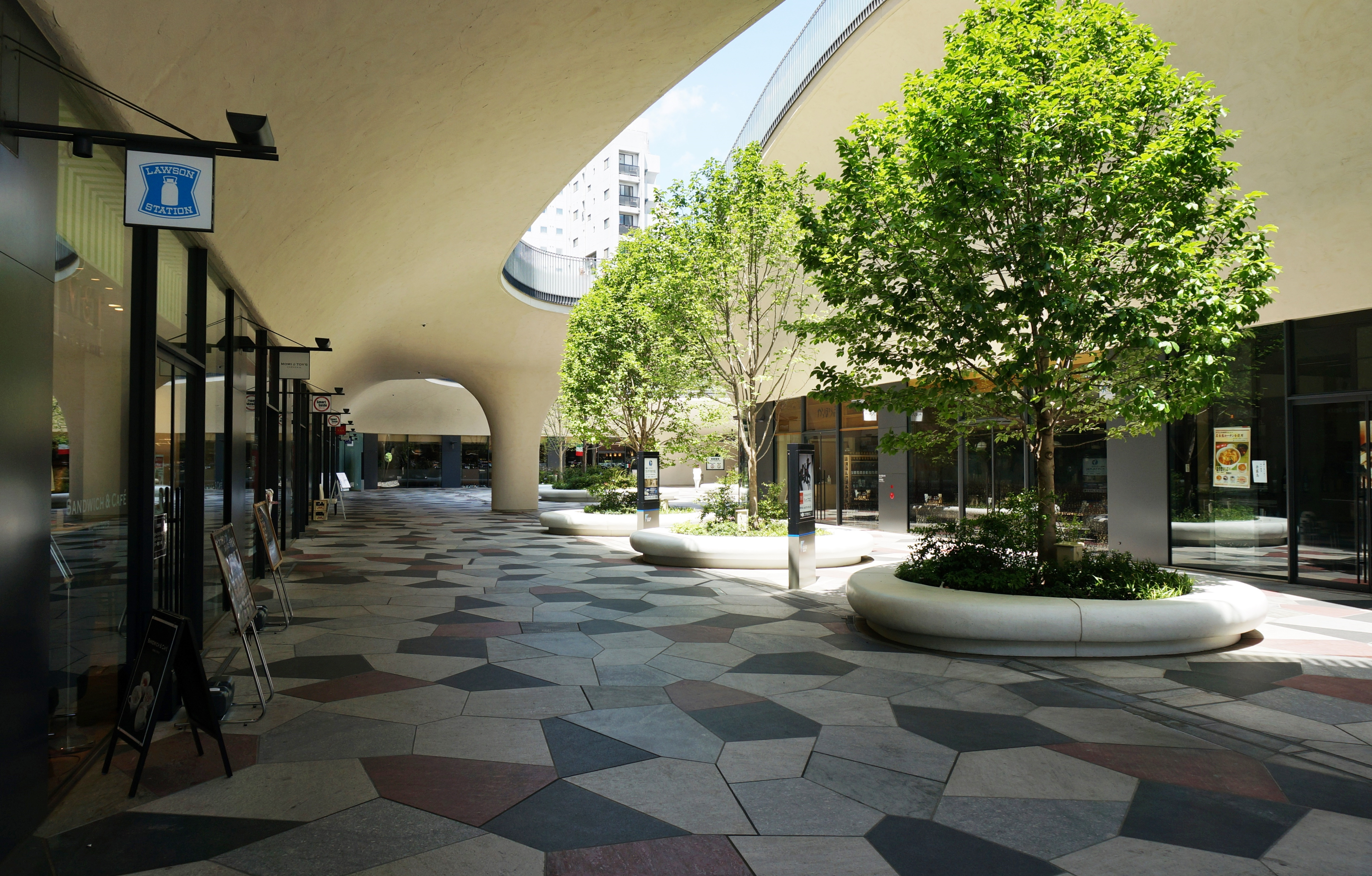 The sunken shopping area at Shinjuku Eastside Square in Shinjuku, Japan